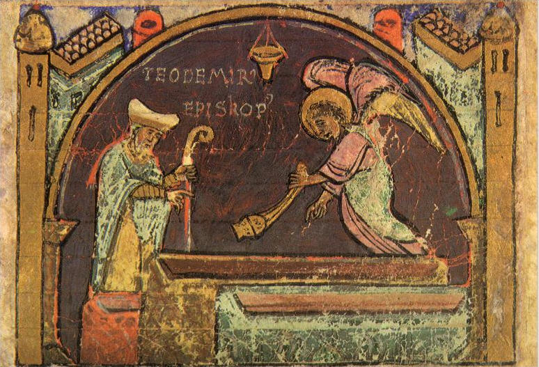 Tumbo A